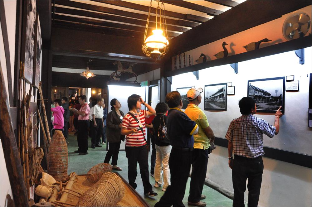 The TIME TUNNEL museum is located within the Kok Lim Strawberry Farm, UT/MR/F-255, Jalan Sungei Burung, 39100, Brinchang, the Cameron Highlands, Pahang, West Malaysia.